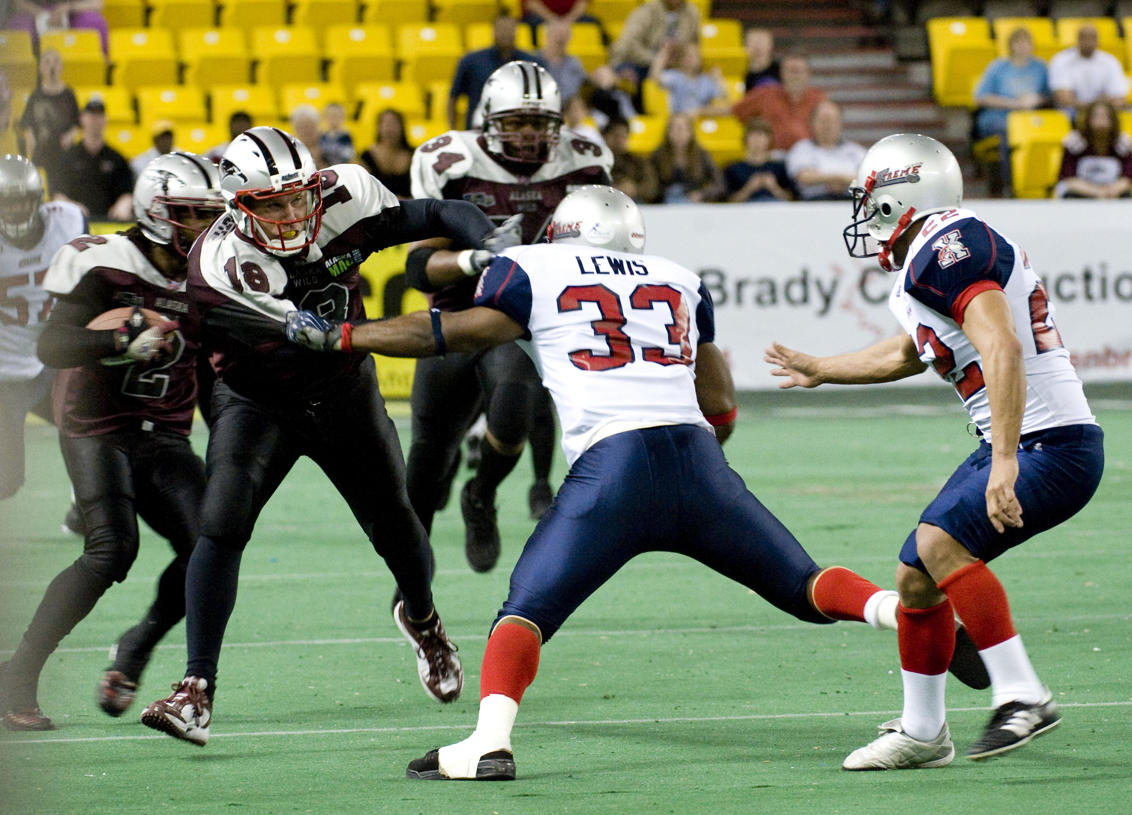 Tech. Sgt. Jeffrey Tongate blocks against Bloomington Extreme Lamar Lewis during a kick return May 4, 2009 at the Sullivan Center. Tongate is a firefighter from the 3rd Civil Engineer Squadron and he also plays for the Alaska Wild, an indoor professional football team. VIRIN